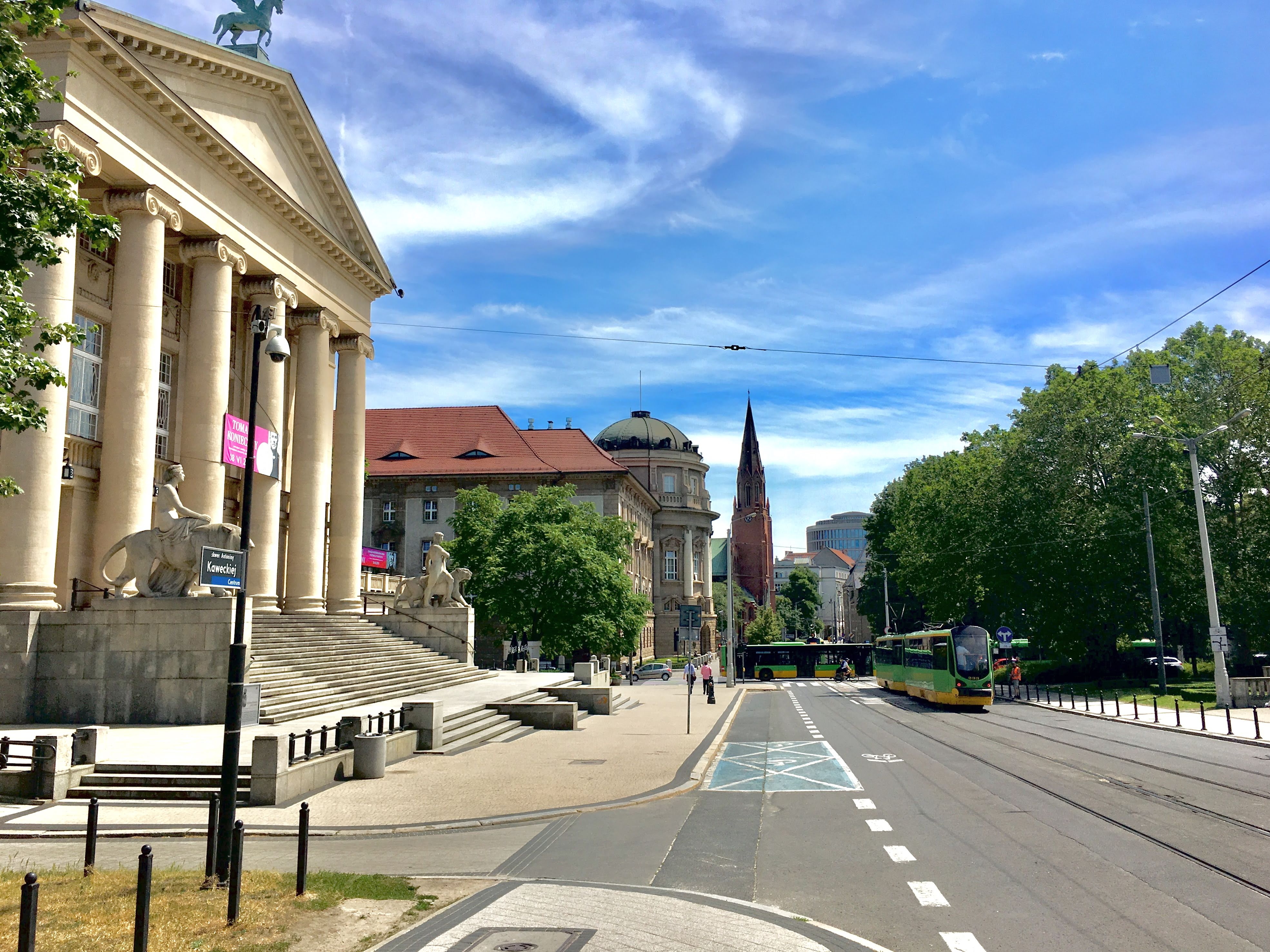 Fredry Street in Poznań